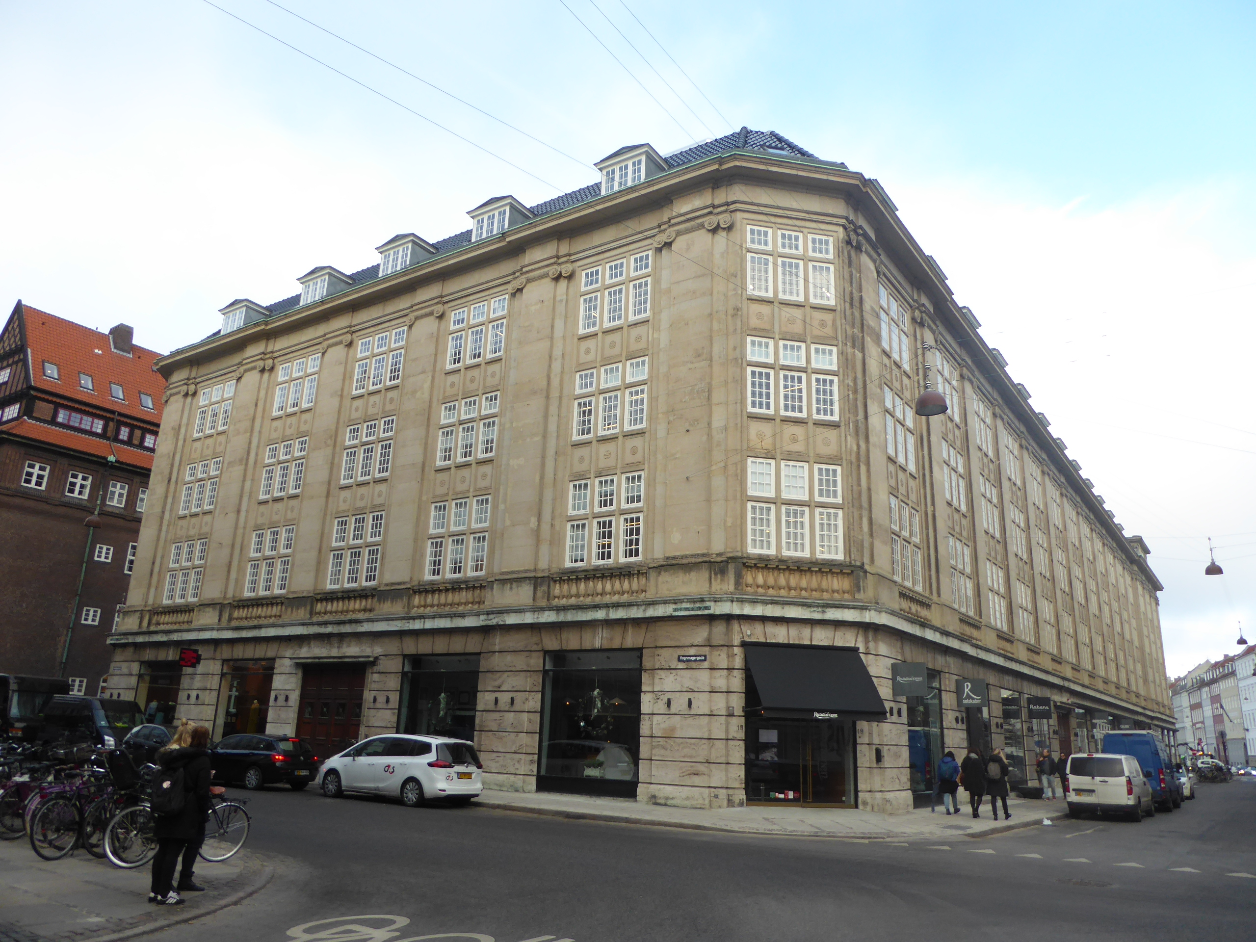 The building Møntergården at the corner of Vognmagergade and Møntergade in Indre by in Copenhagen.